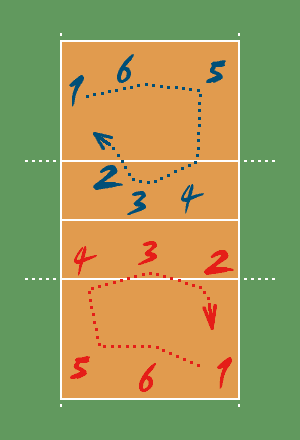 Description: diagram of volleyball rotation in court Source: self-made Author: created by Loge on May 13, 2005. Updated by byj 26 June 2005 09:48 (UTC)